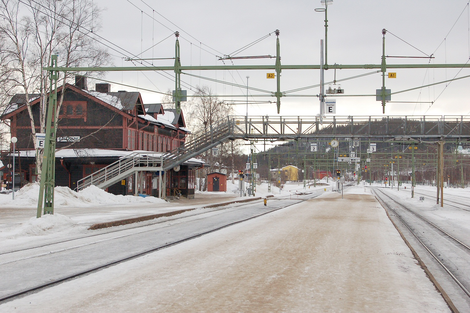 Gällivare railway station in Sweden.